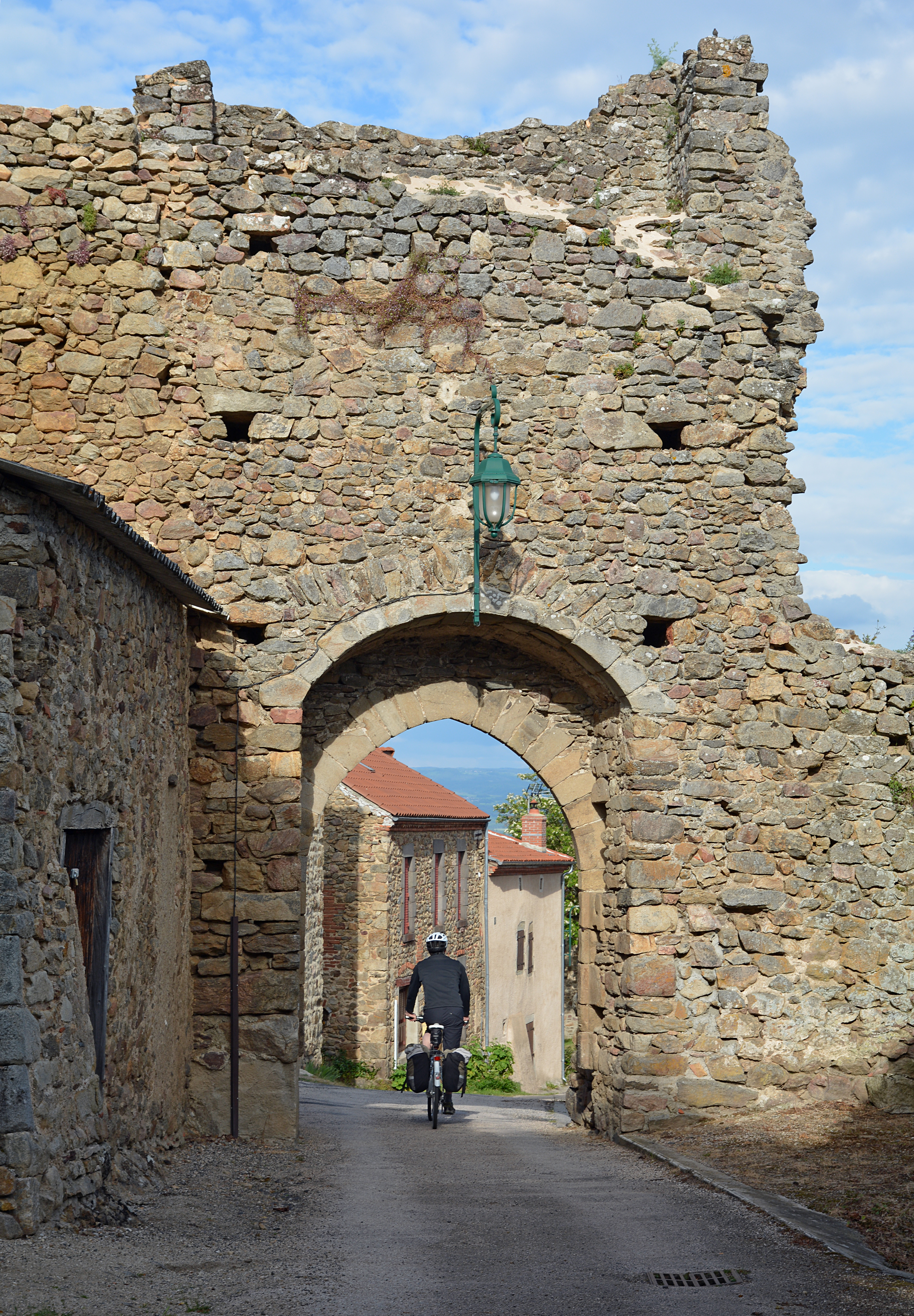 Gate of the village of Leotoing, Haute Loire, Auvergne, france